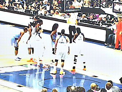 A photo of Game 1 of the 2013 WNBA Finals